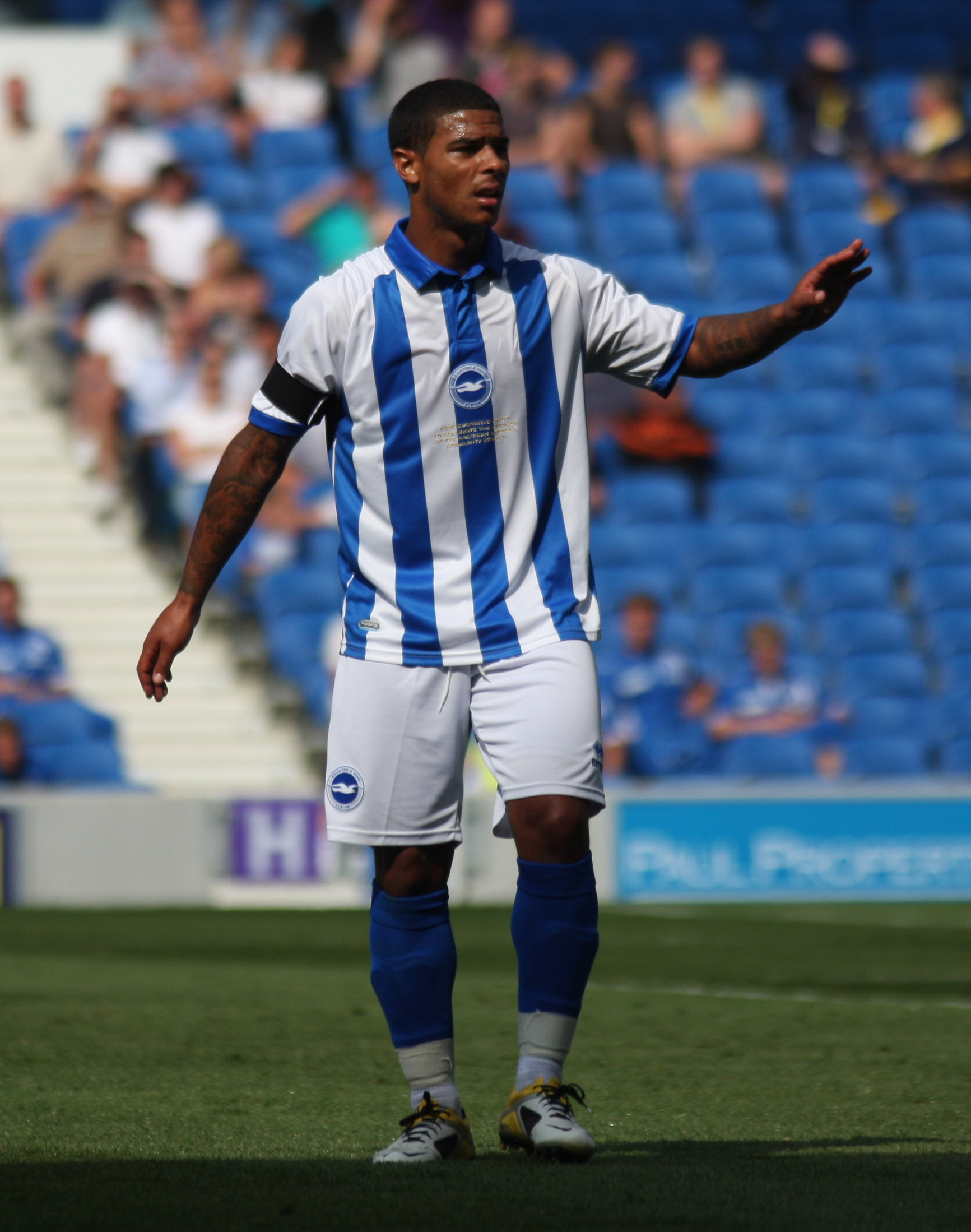 Brighton v Spurs Amex Opening 30/7/11